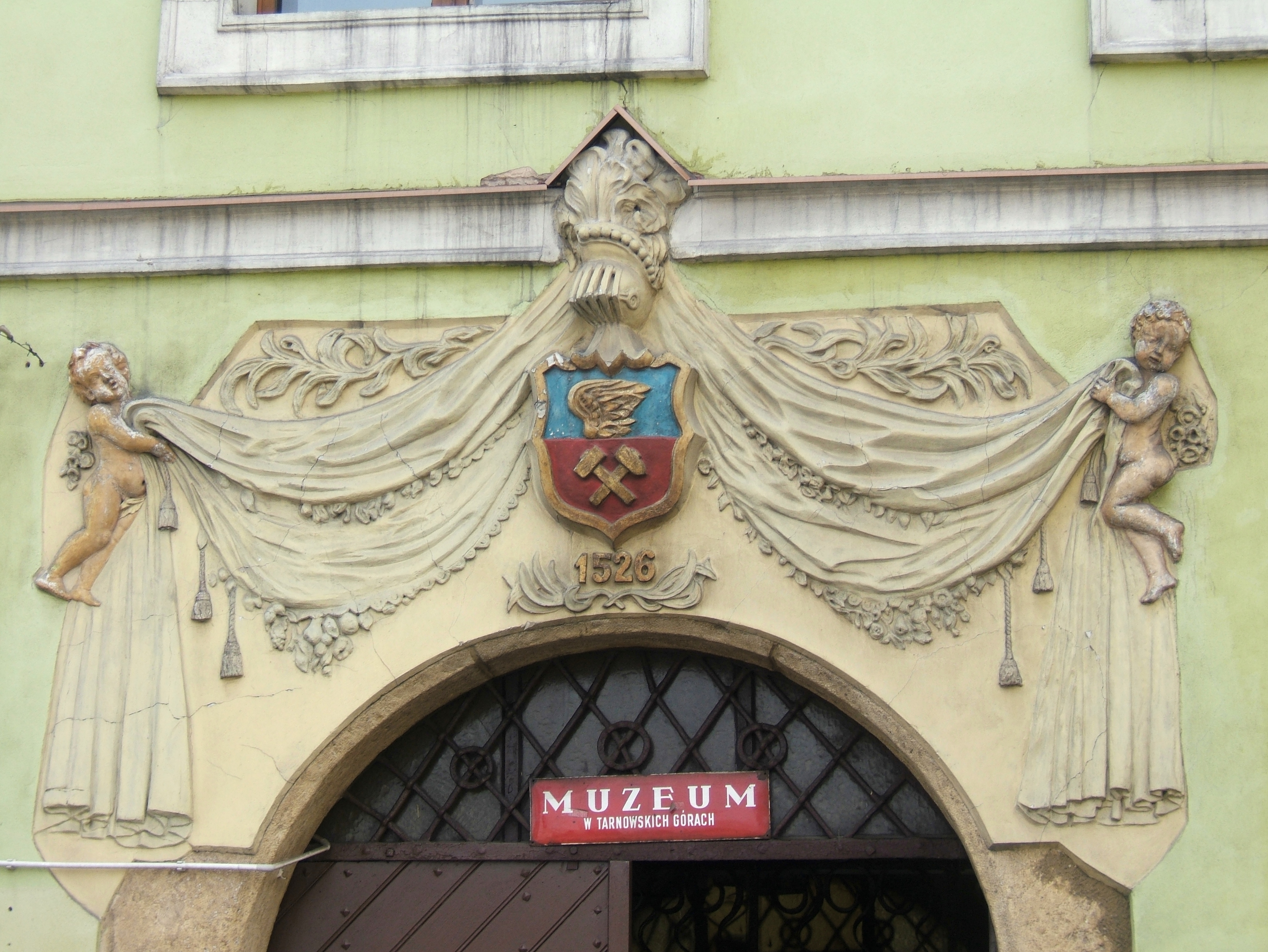 Portal of the wine cellar in Tarnowskie Góry with the old coat of arms of the city. The year 1526 symbolizes the granting of the privilege "Miners Freedom Decree" in this year.